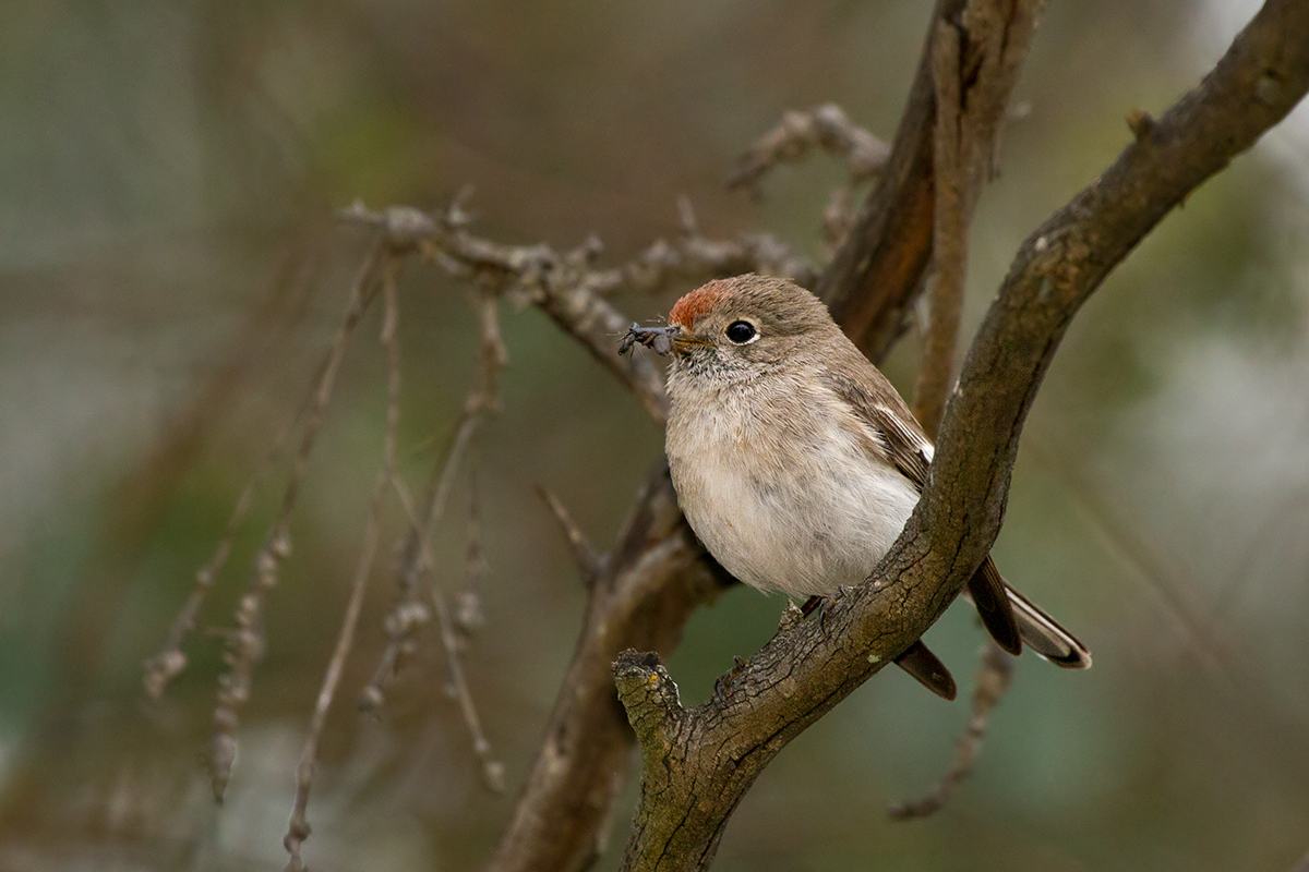 Mum with some food for the nestlings.